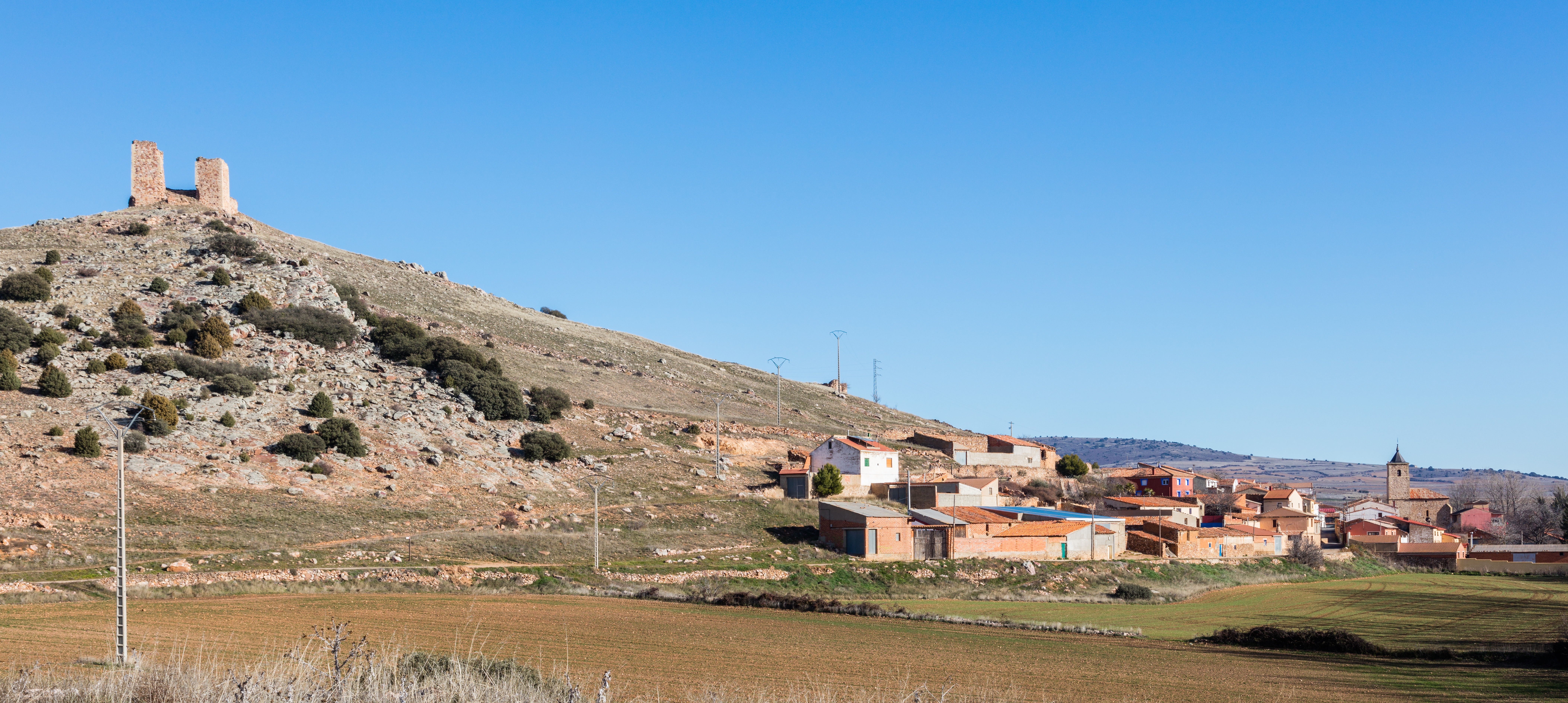 Santed, Zaragoza, Spain